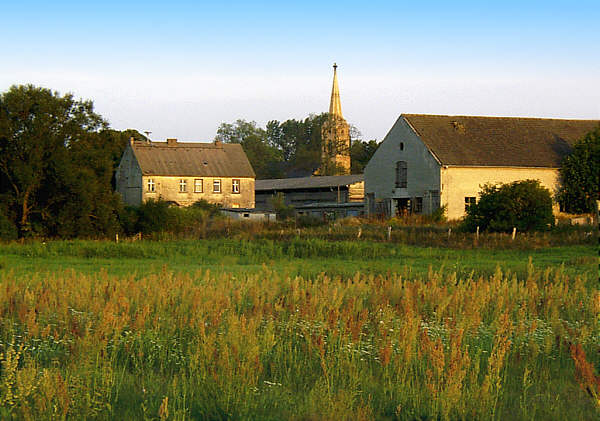 Village Pinnow, borough of Hohen Neuendorf, Germany.